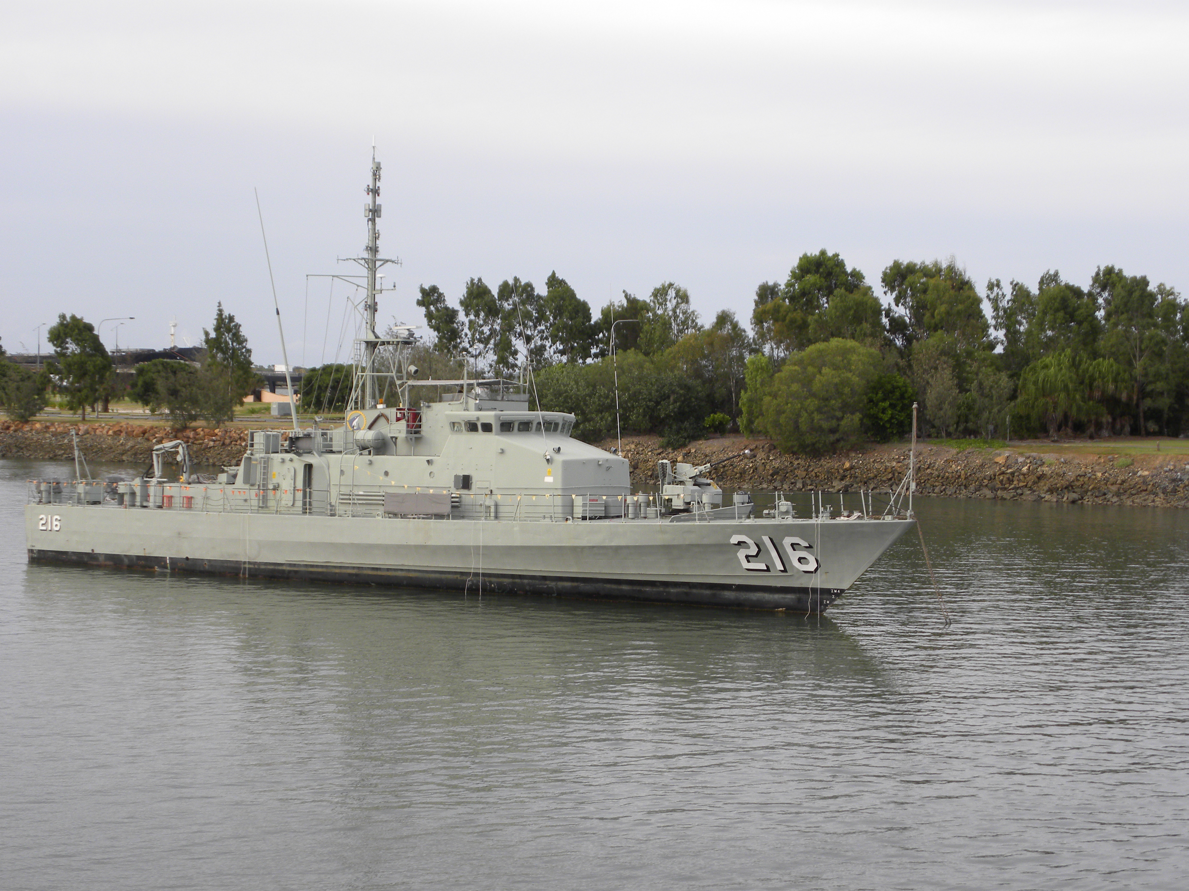 Retired ship HMAS Gladstone, now part of the Gladstone Maritime Museum, Central Queensland, Australia